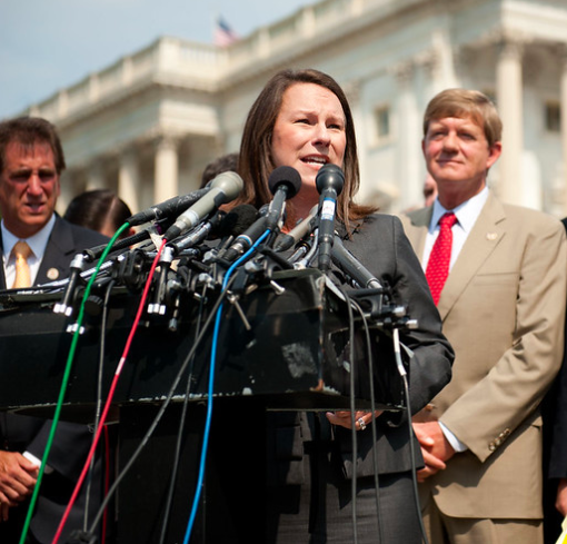 Martha Roby speaking at the press conference for Freshmen Support of the GOP Budget Control Act